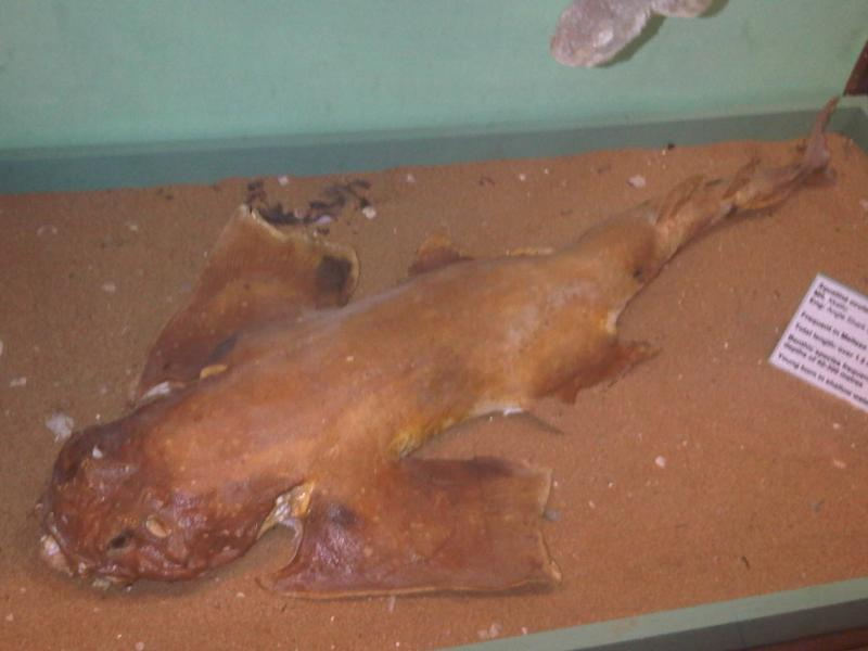 Squatina oculata at the National Museum of Natural History, Vilhena Palace, Republic of Malta.